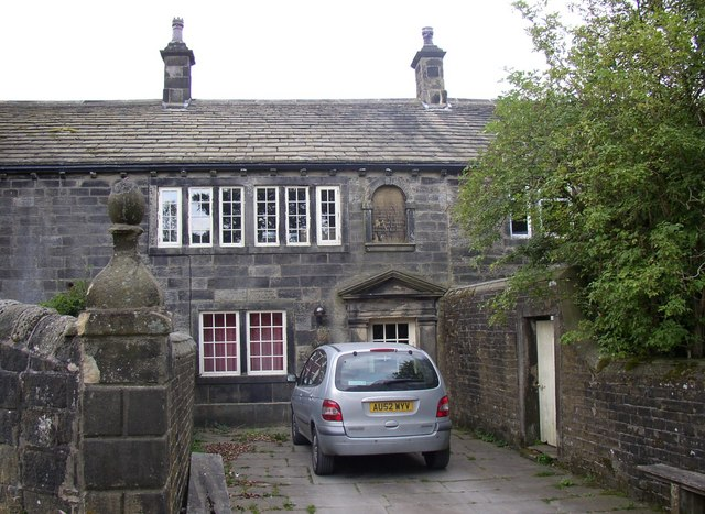 Part of Ponden Hall, Stanbury Emily Bronte, a friend of the family, often visited the house and used the library, and it is thought that the house might be the model for Thrushcross Grange in Wuthering Heights. (M A Butterfield, The Heatons of Ponden Hall ..., Bradford 1976)